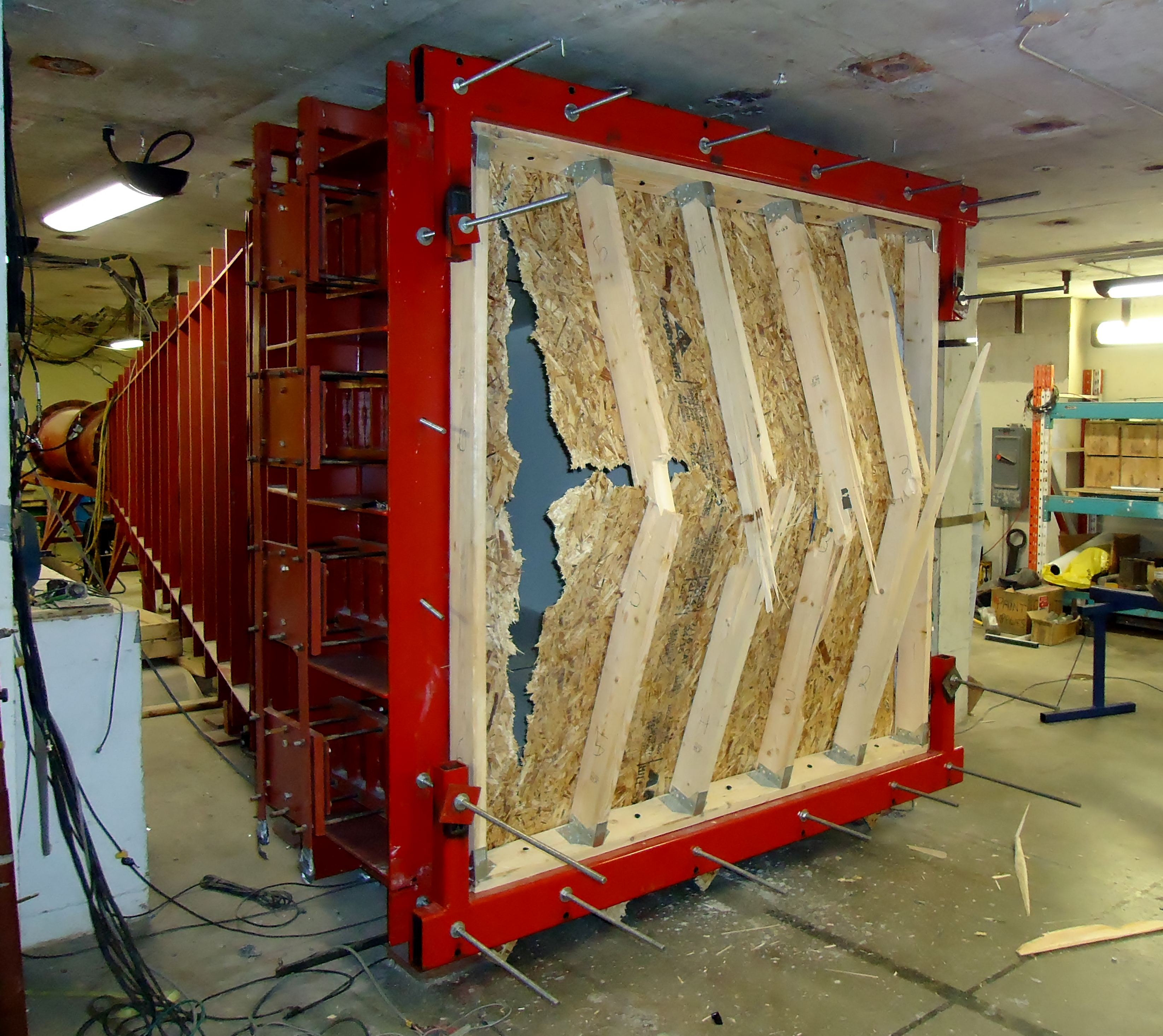 Shock tube test apparatus at the University of Ottawa. In this particular picture, a shock tube generated blast wave has been applied to a light-frame wood stud wall with retrofitted end connections. More info can be found at